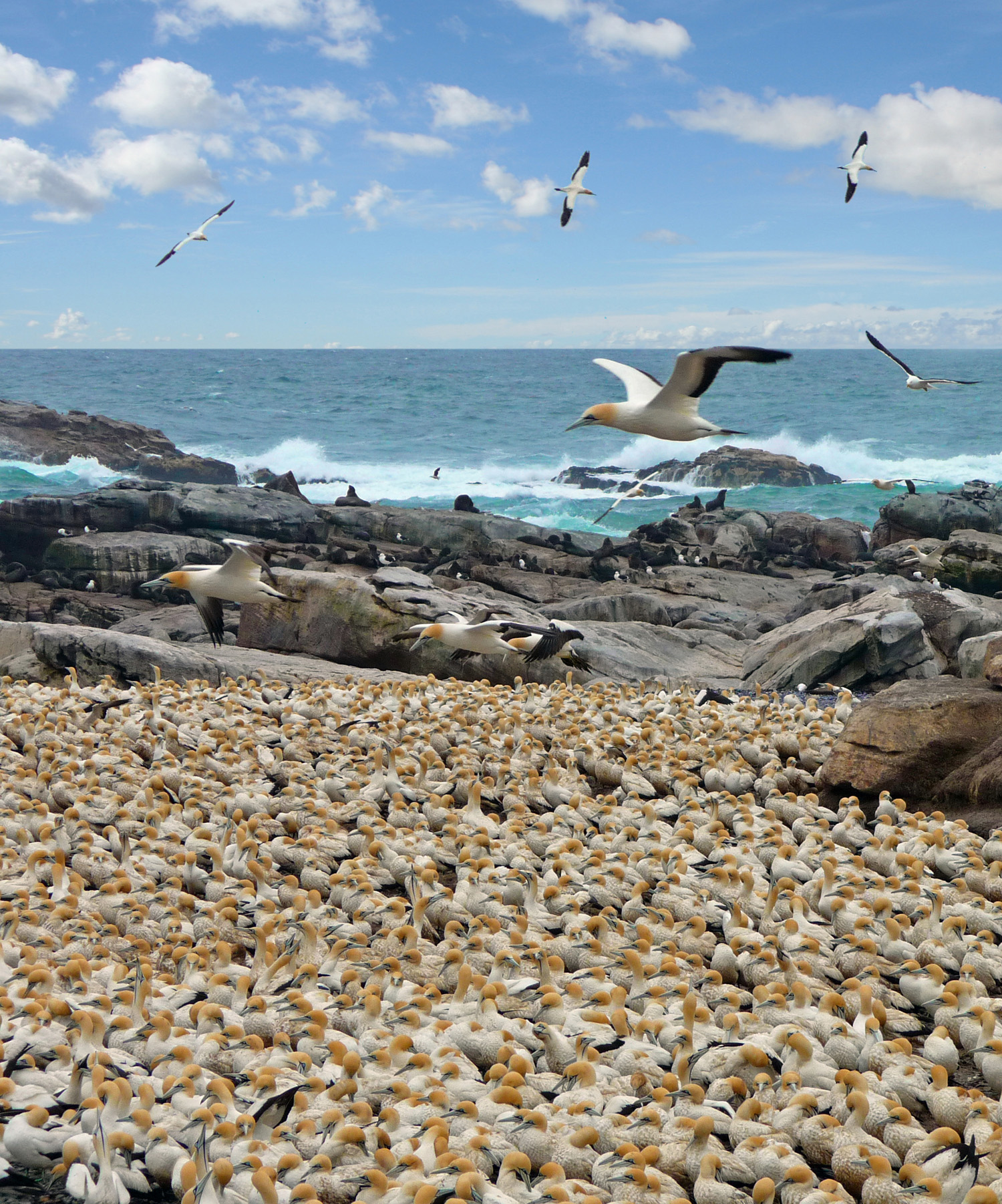 Cape Gannet (Morus capensis) breeding colony in Bird Island Nature Reserve near Lamberts Bay, Western Cape, South Africa